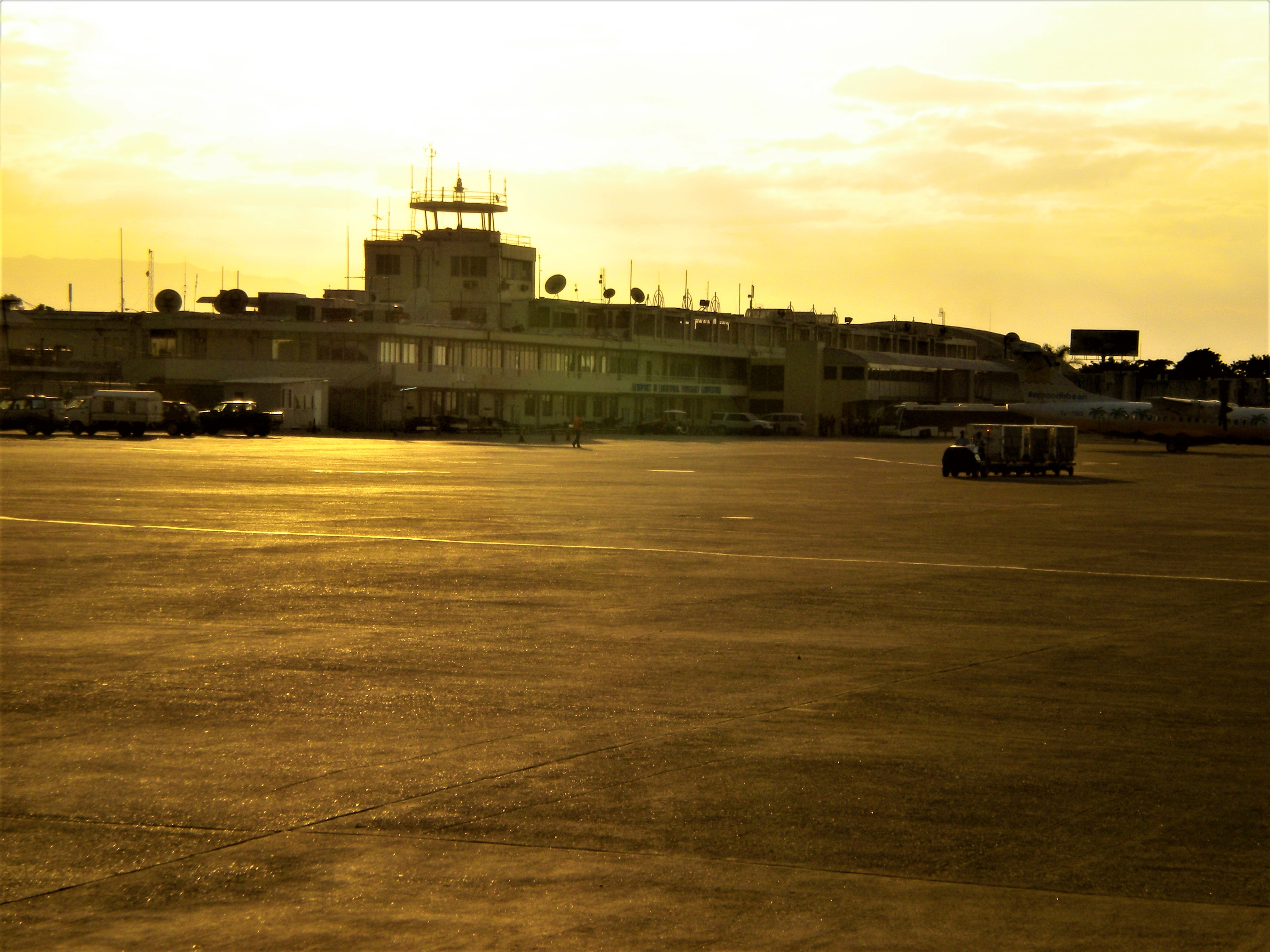 Port-au-prince International Airport terminal